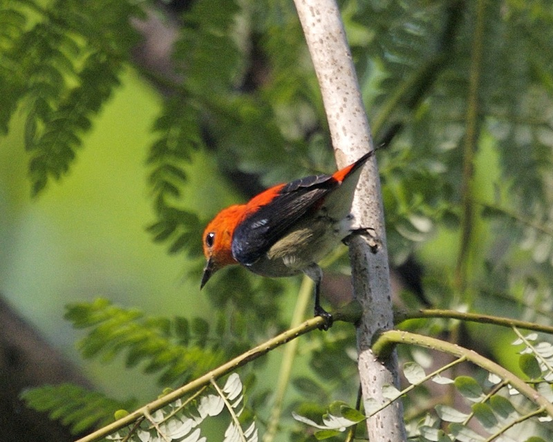 Scarlet-headed Flowerpecker Dicaeum trochileum Nominate Race, Dicaeum trochileum trochileum Bogor Botanic Garden, Bogor, Java, Indonesia 20th. October 2008 Indonesian: Burung cabe 690V4062